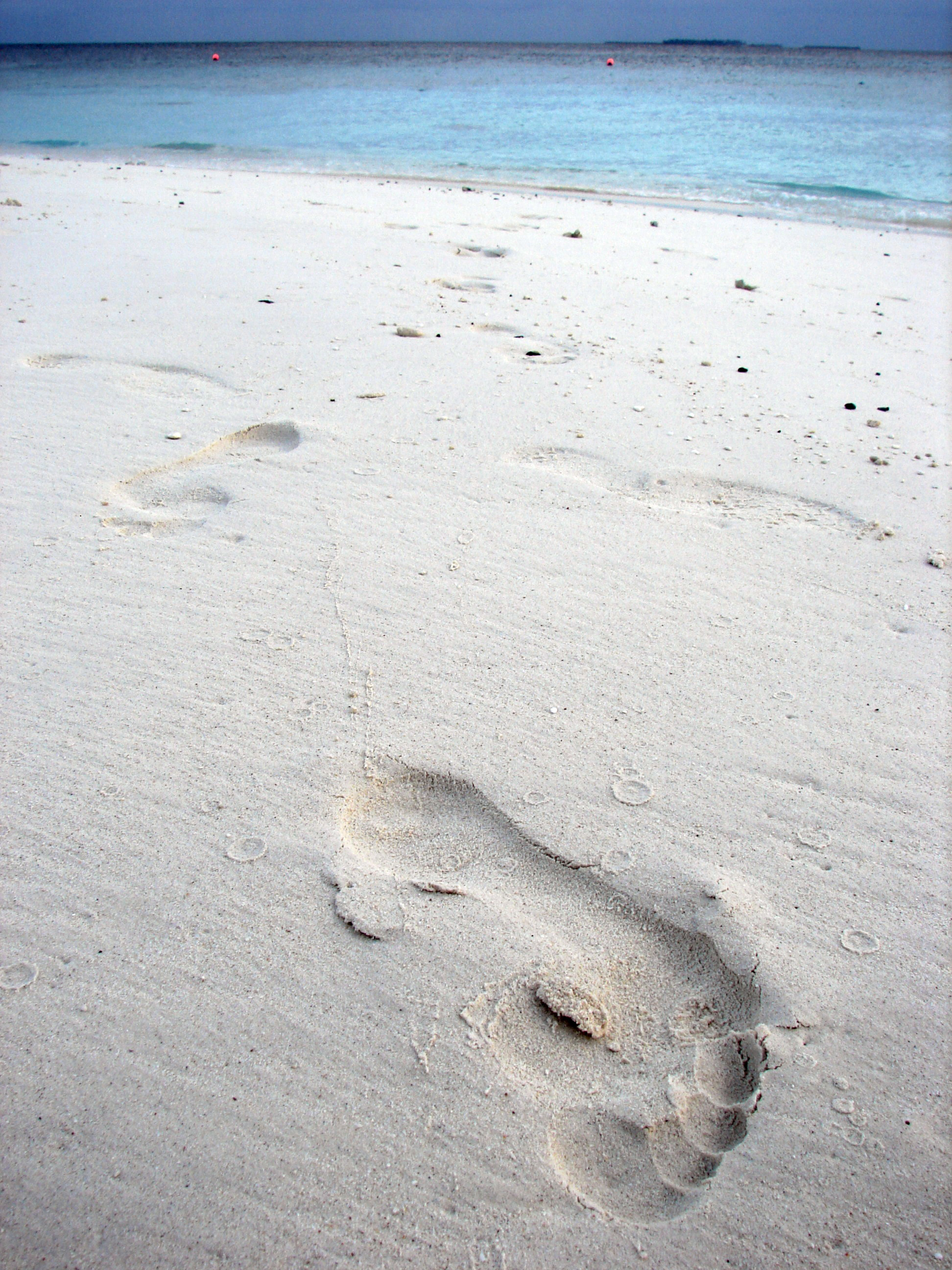 Footprint in sand. Photograph from Maldives